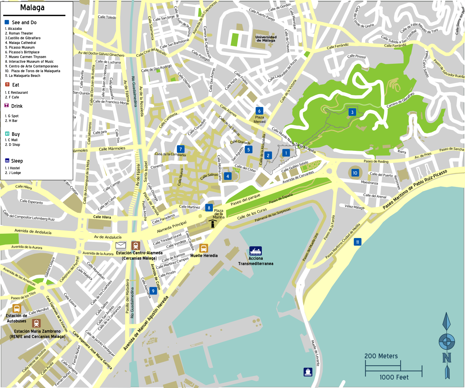 Map of Málaga, Spain